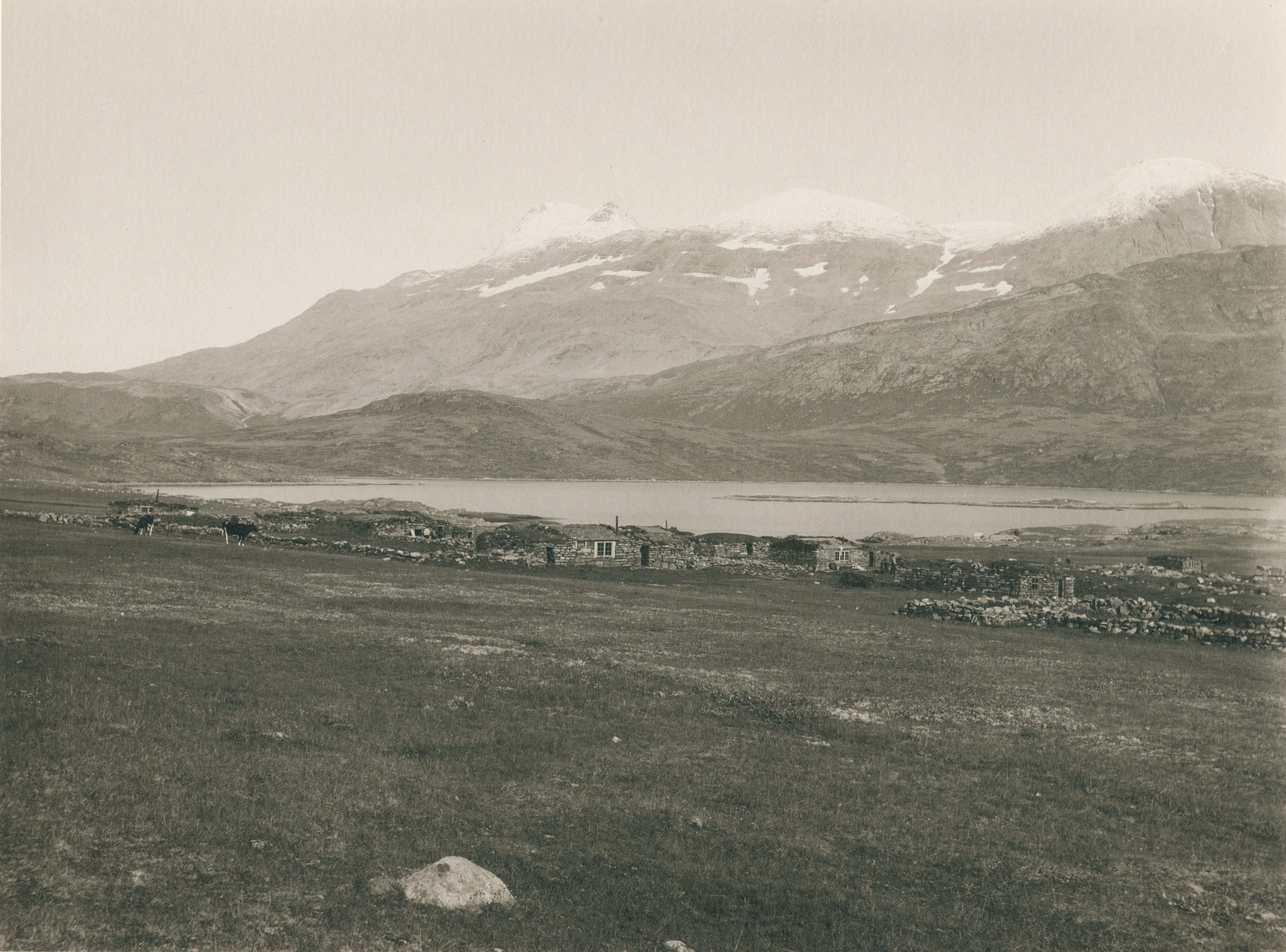 The settlement Igaliko.